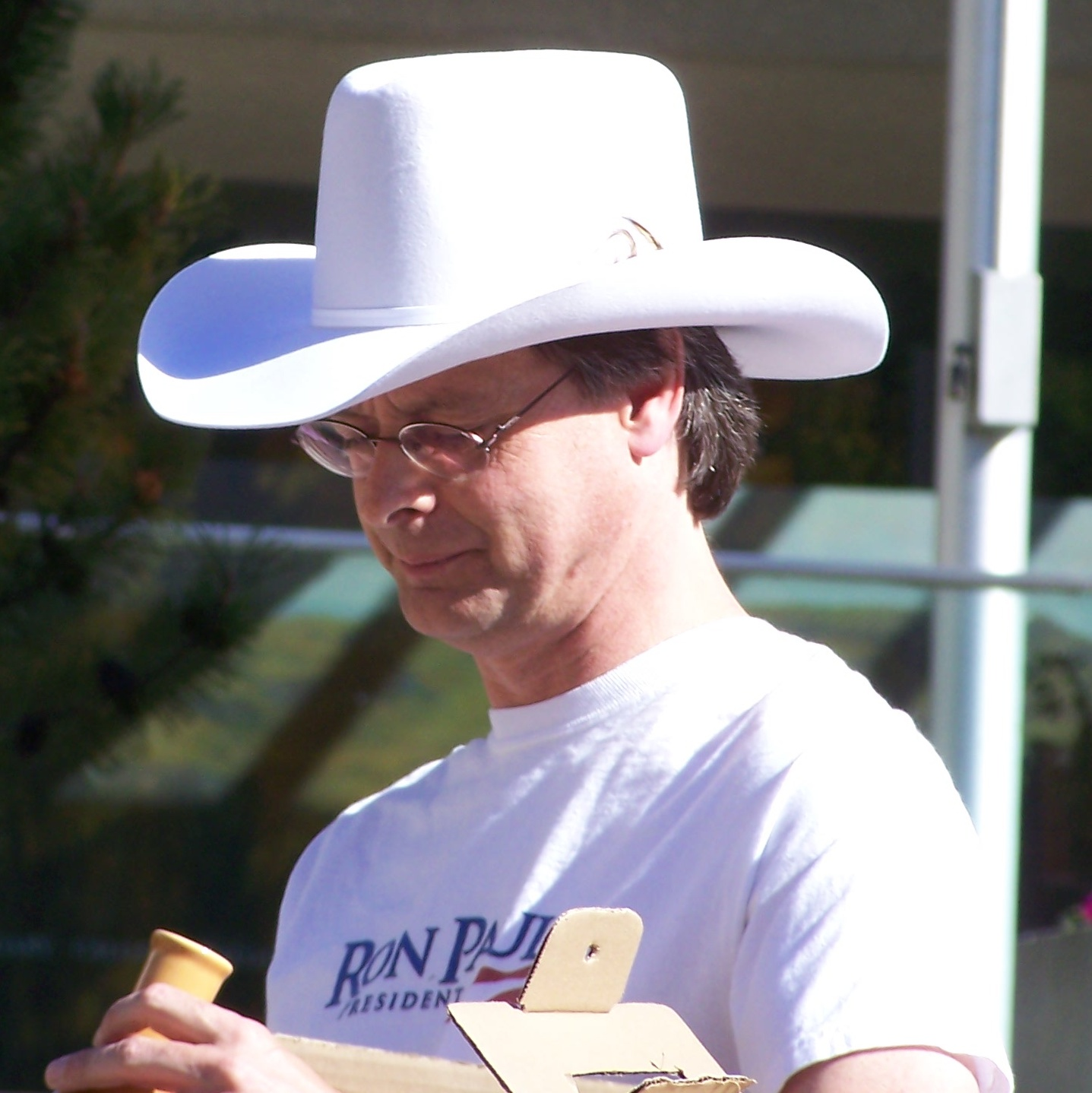 Marc Emery at a pro-Marijuana rally outside City Hall in Calgary, Alberta, Canada.